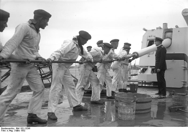 This photograph appears to show the aft triple 15-cm guns on a German Königsberg class light cruiser.